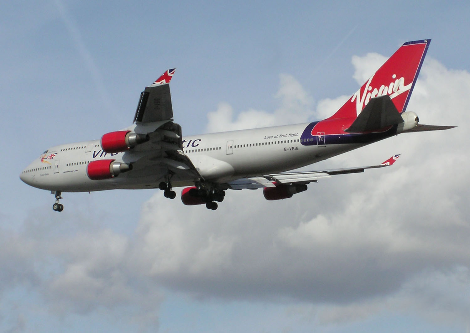 Virgin Atlantic Airways Boeing 747-400 (G-VBIG) landing at London (Heathrow) Airport, England. Taken by Adrian Pingstone in March 2005 and released to the public domain.